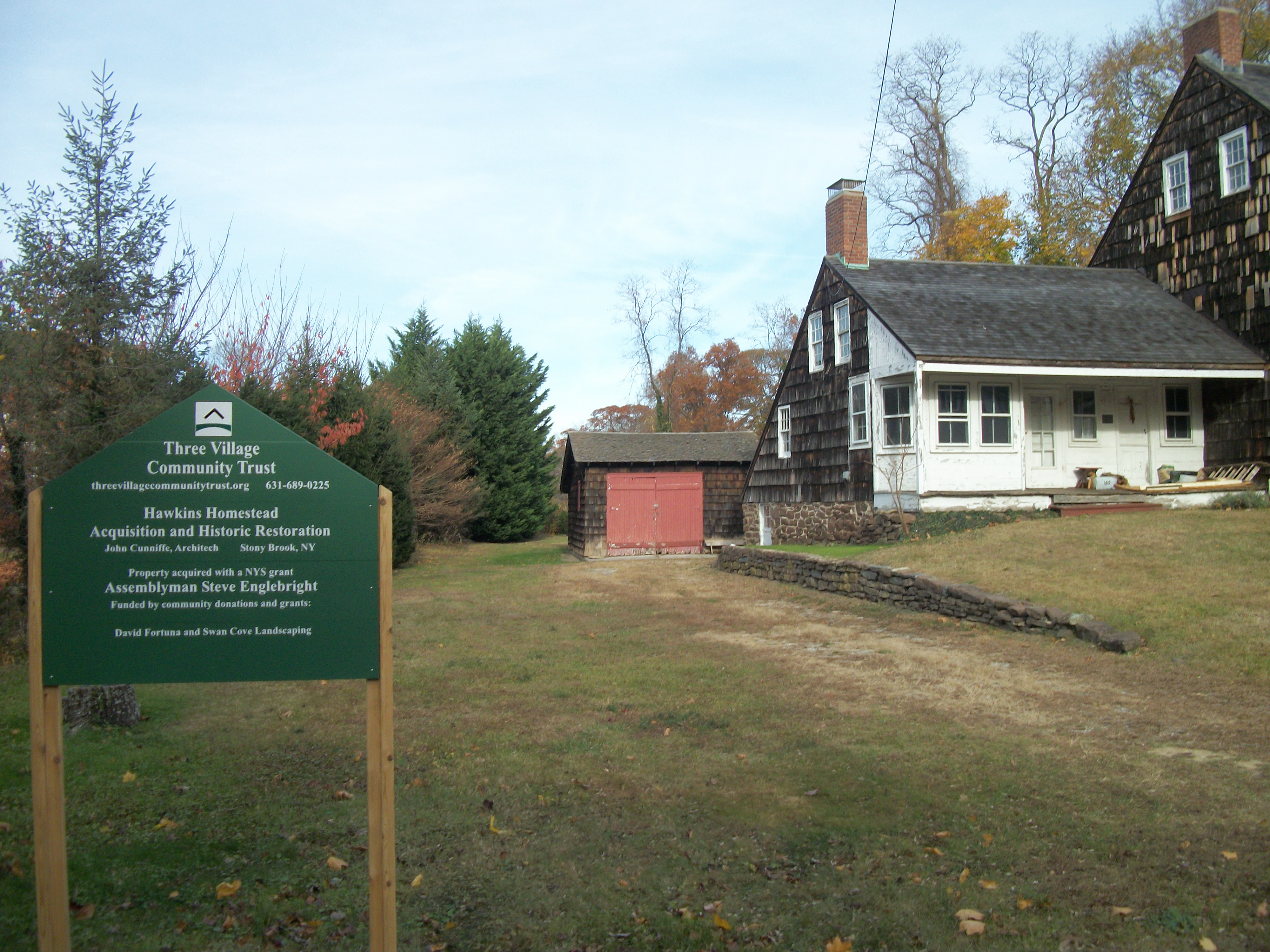 View of the house, carriage house and historic restoration sign at the Zachariah Hawkins Homestead, a house listed on the National Register of Historic Places in Stony Brook, New York.